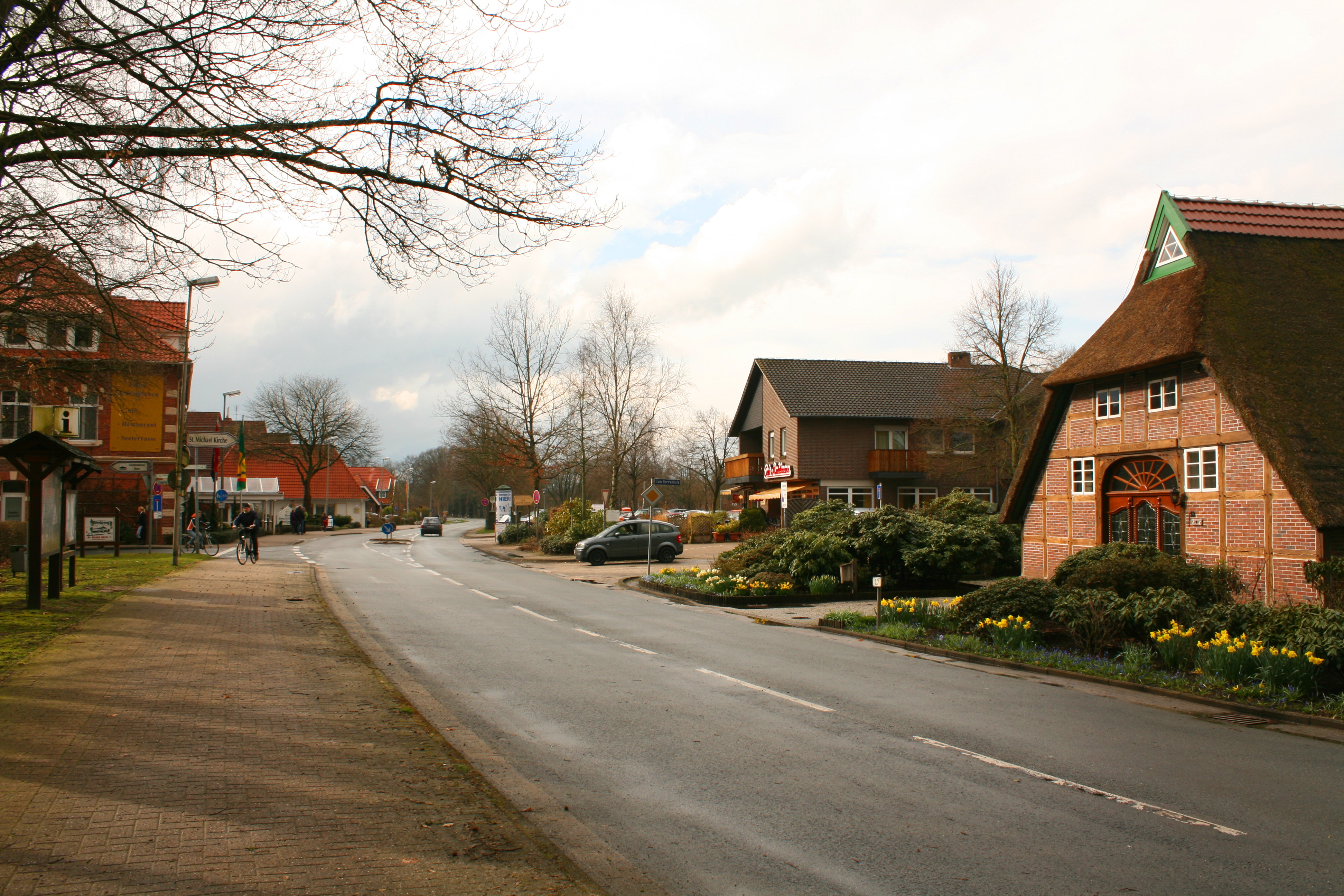 Dreibergen (municipal Bad Zwischenahn)